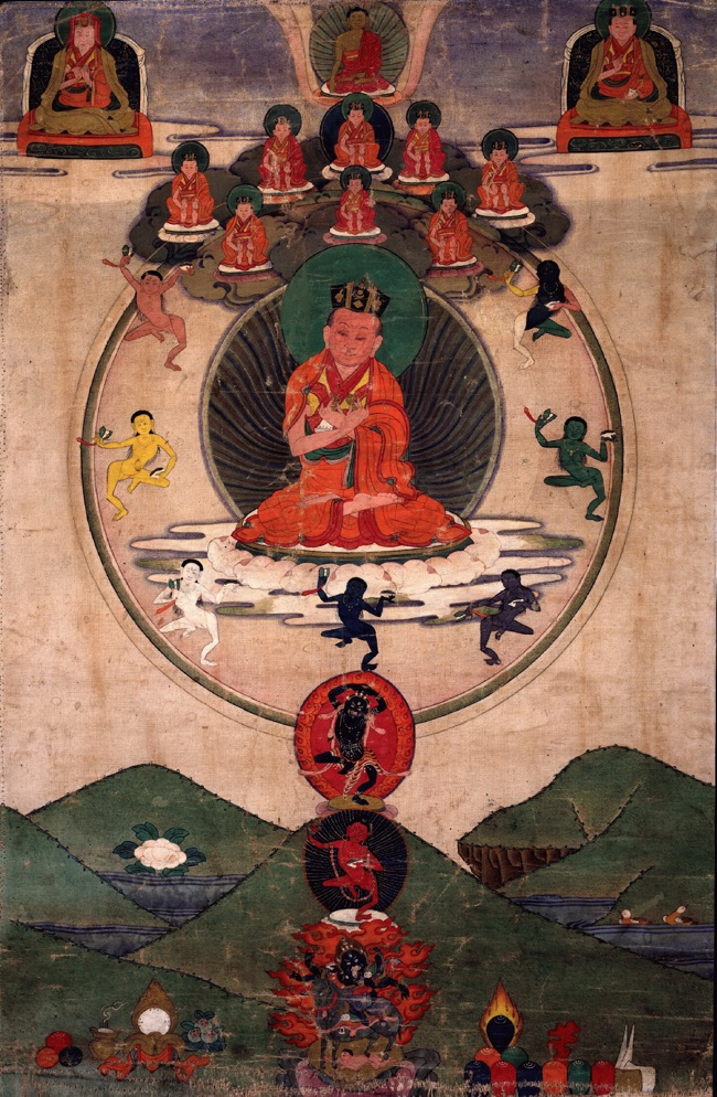 Painting of the 8th Karmapa Mikyö Dorje. This beautiful painting, from the collection of the Rubin Museum of Art, New York, is in the Karma Gardri style of Eastern Tibet and dates from the 19th Century. It is based on the Guru Yoga in Four Sessions (Tib. tun shi lami naljor) meditation composed by the 8th Karmapa Mikyö Dorje (1507–1554). This practice is taught in Diamond Way Buddhist centres, after one has completed the Four Foundational Practices (Tib. ngondro).